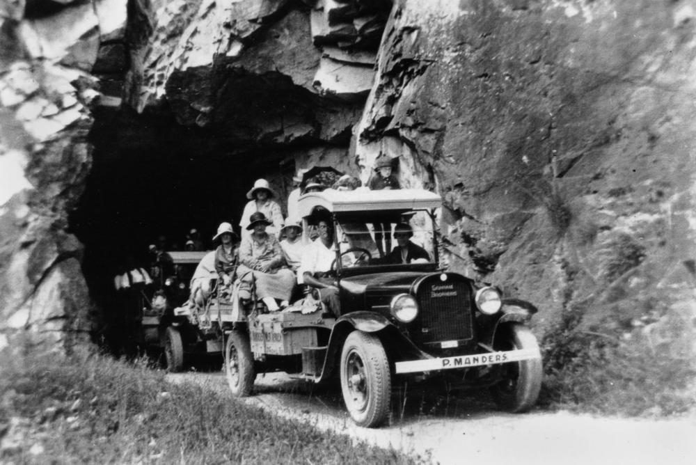 Graham Brothers truck, ca. 1925. Outing on the back of a Graham Brothers truck. The chassis of these trucks were built in USA, with locally built chassis and cab. Graham Brothers were absorbed by Dodge in 1928.